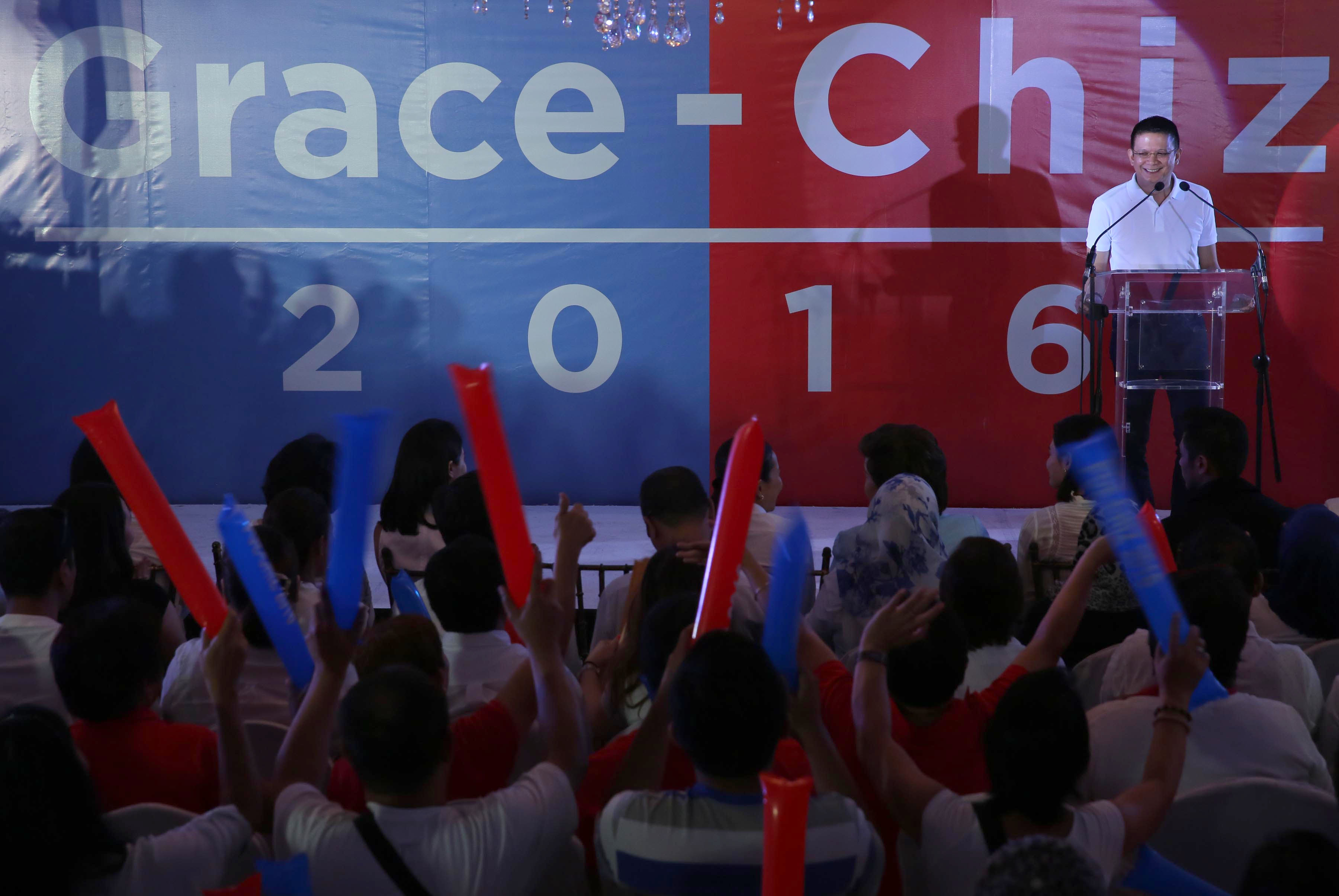 Escudero announces vice presidential bid in front of supporters in the historic Club Fiipino.